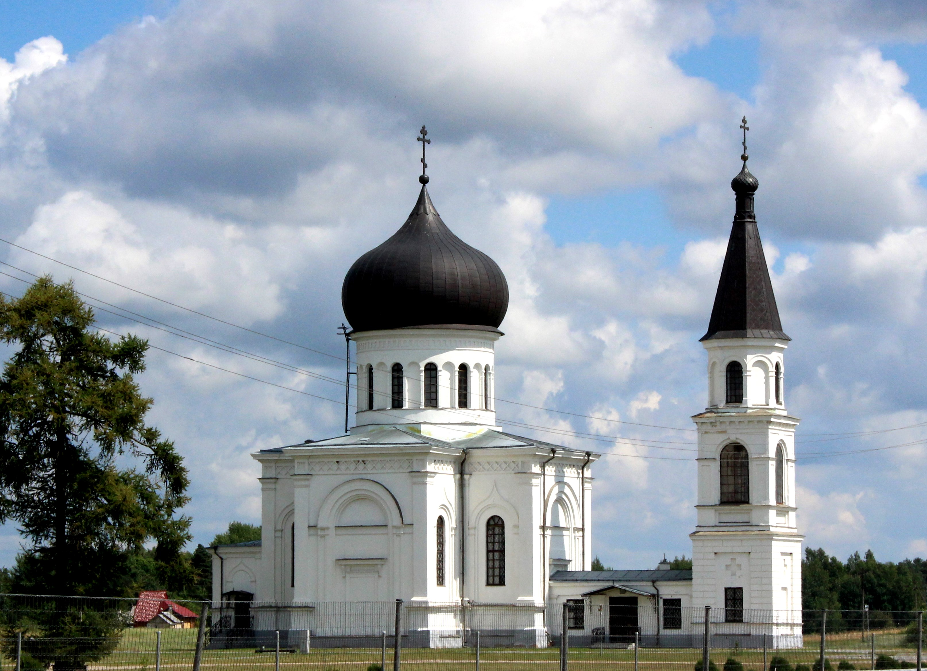 Orthodox church of the Dormition of the Theotokos in Vievis